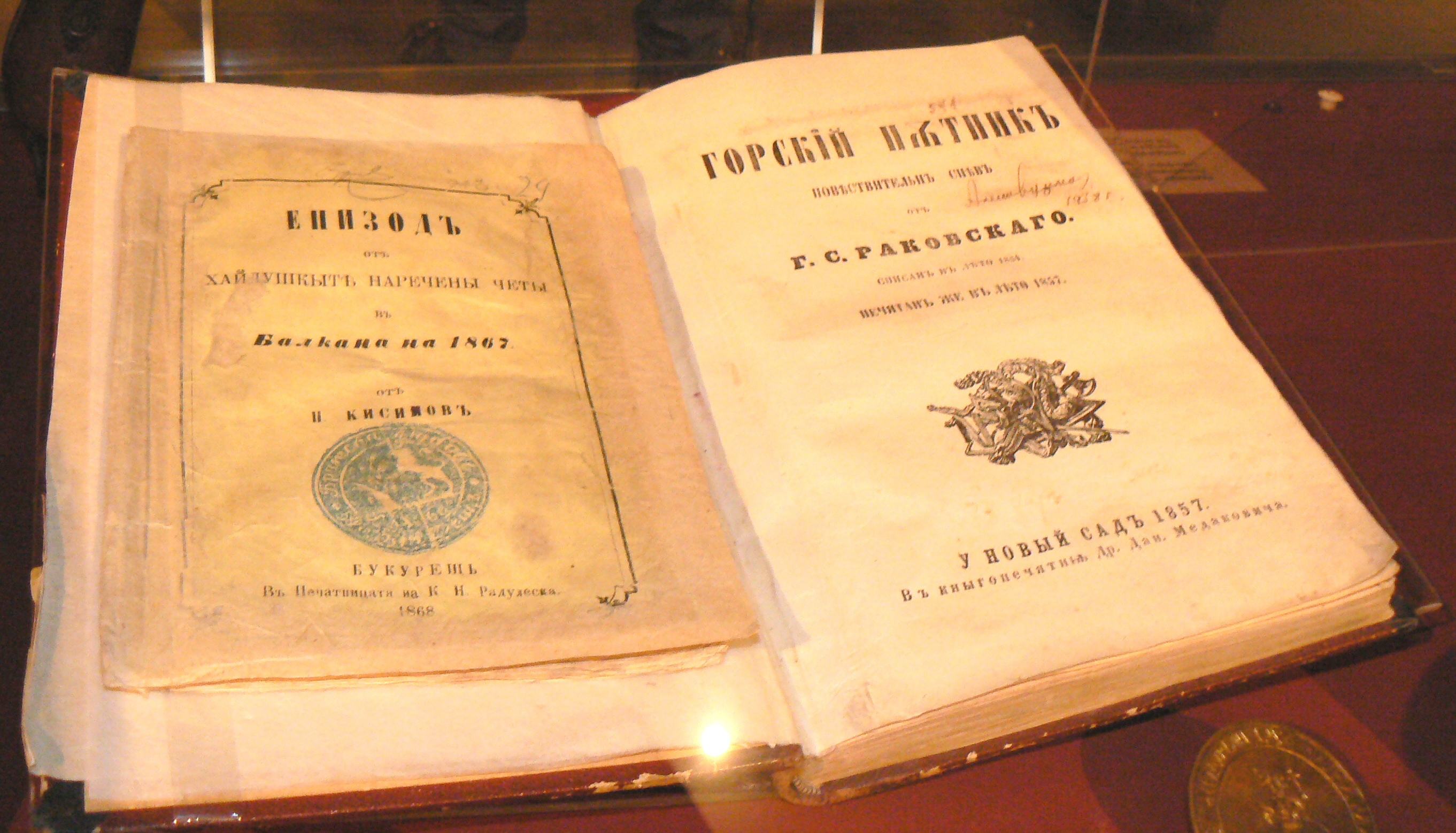 The book "Forest Wanderer" by Georgi Sava Rakovski, 1857. Exhibit of the National History Museum of Bulgaria